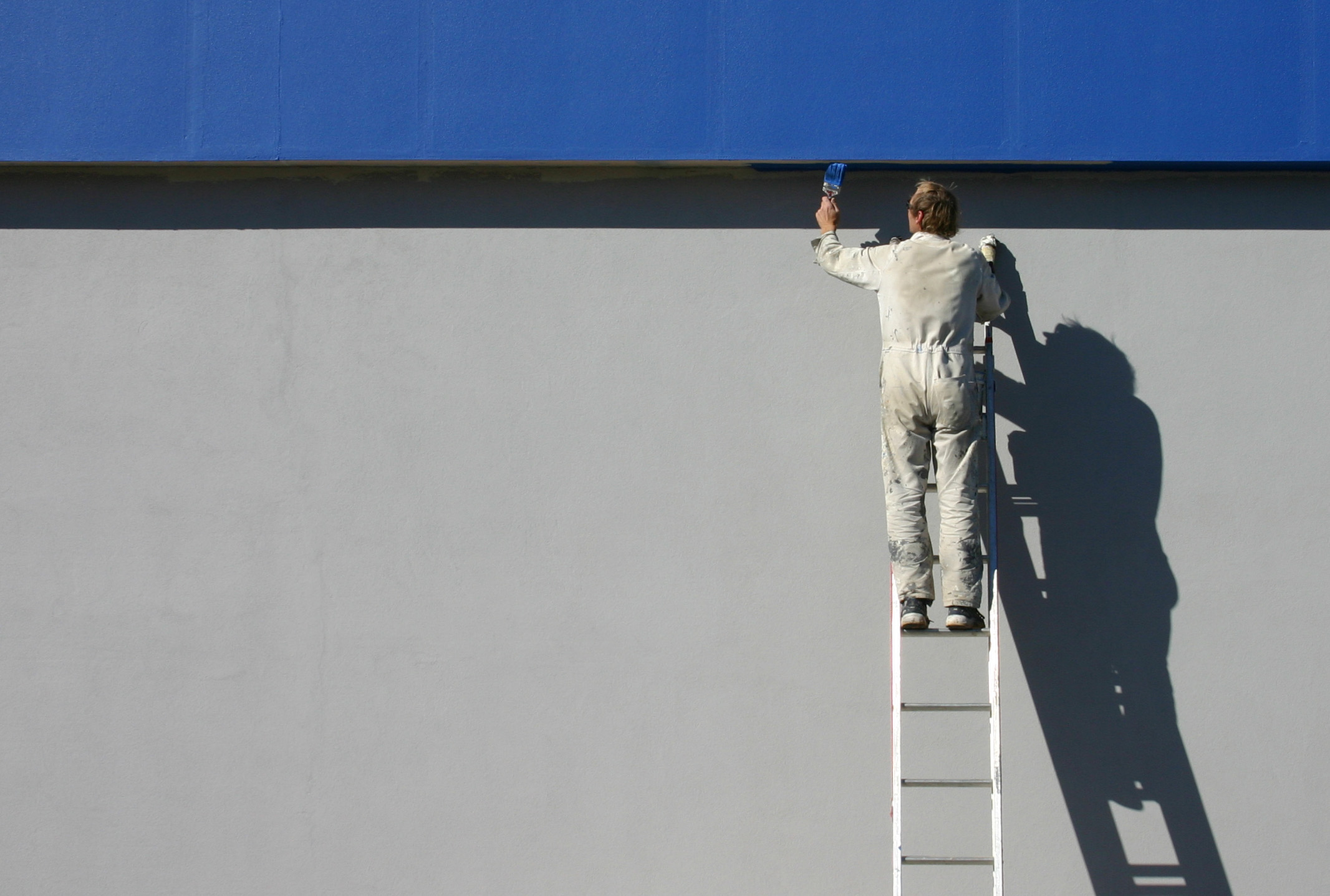 A modern painter and decorator.